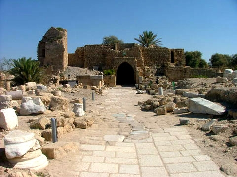 Barrat Qisarya village in Haifa